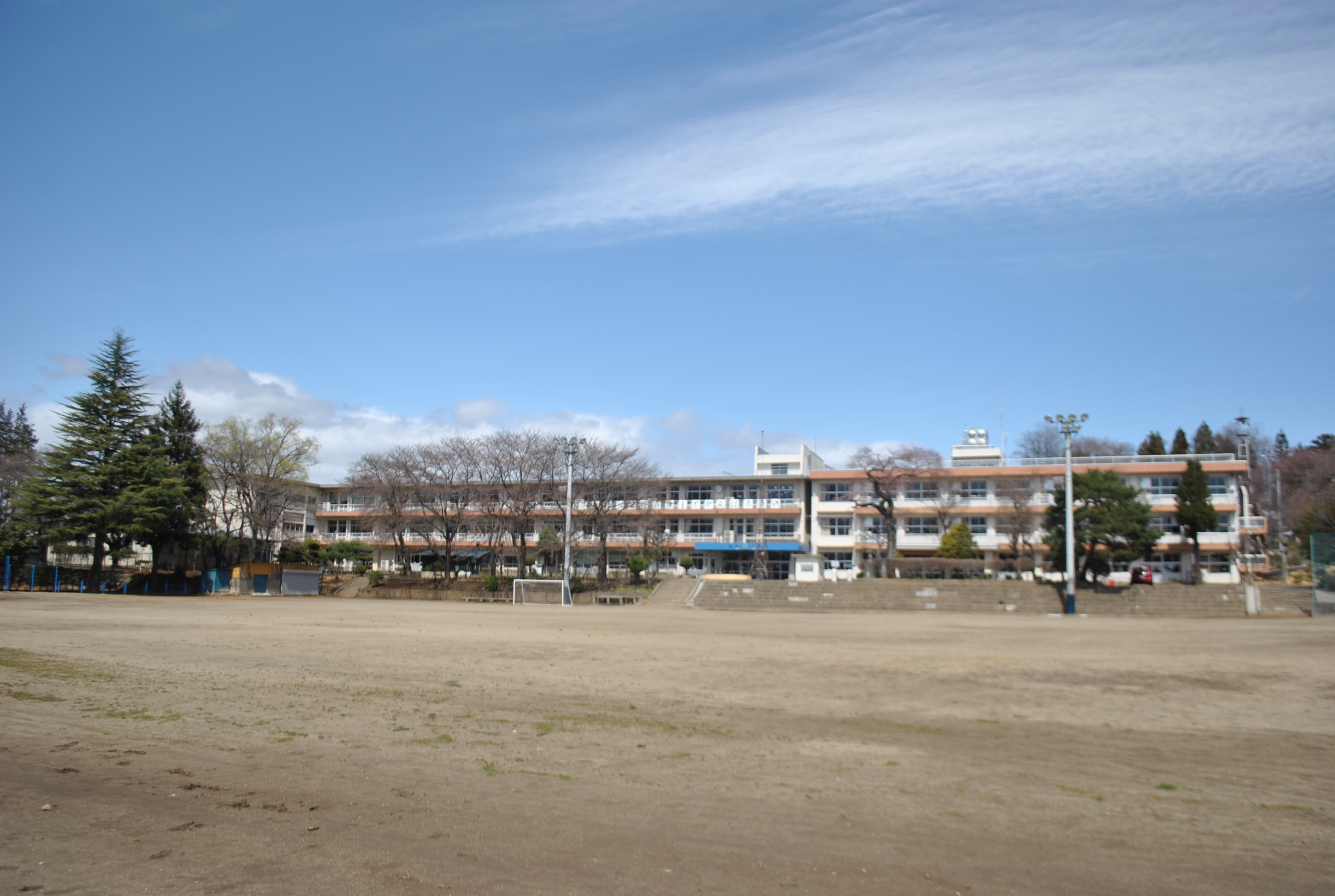 Yabuki Elementary School in Yabuki Town, Fukushima Pref., Japan.